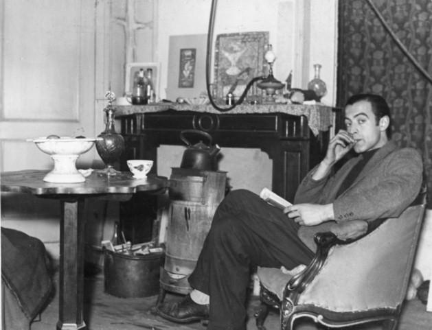 Albert Muis in his atelier, Amstel 17 à Amsterdam, 1944 photographe of Paul Hartland